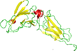 Interferon-alpha/beta receptor beta chain